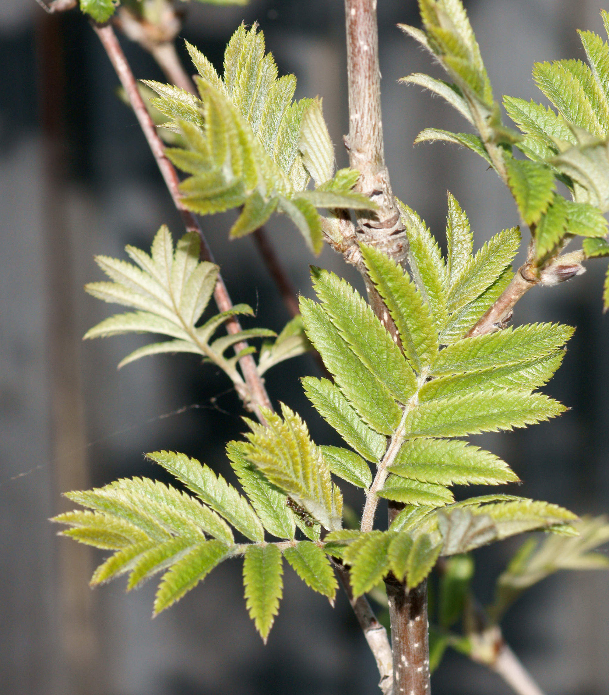 Young leaves of Sorbus aucuparia